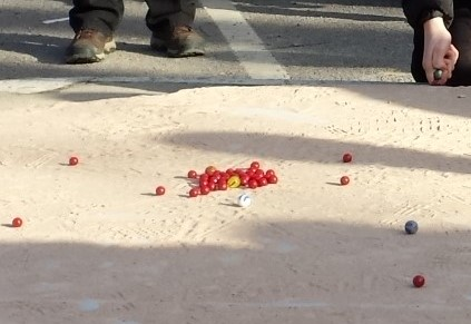 Cropped from: - File:British and World Marbles Championship 2016.jpg taken at the 2016 British and World Marbles Championship